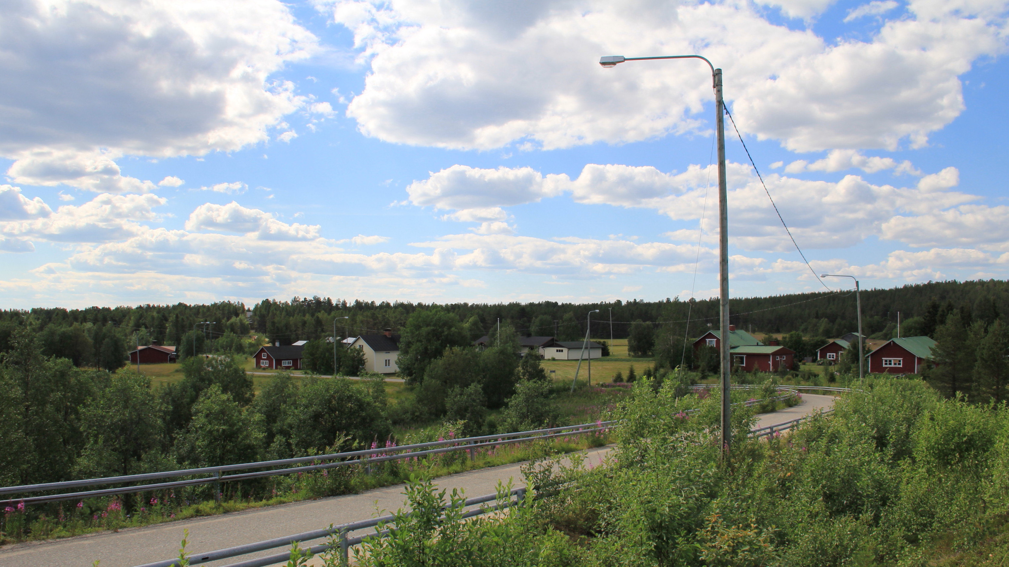 Lokka village in Sodankylä, Finland. – Seen from dam road, road downward in foreground.